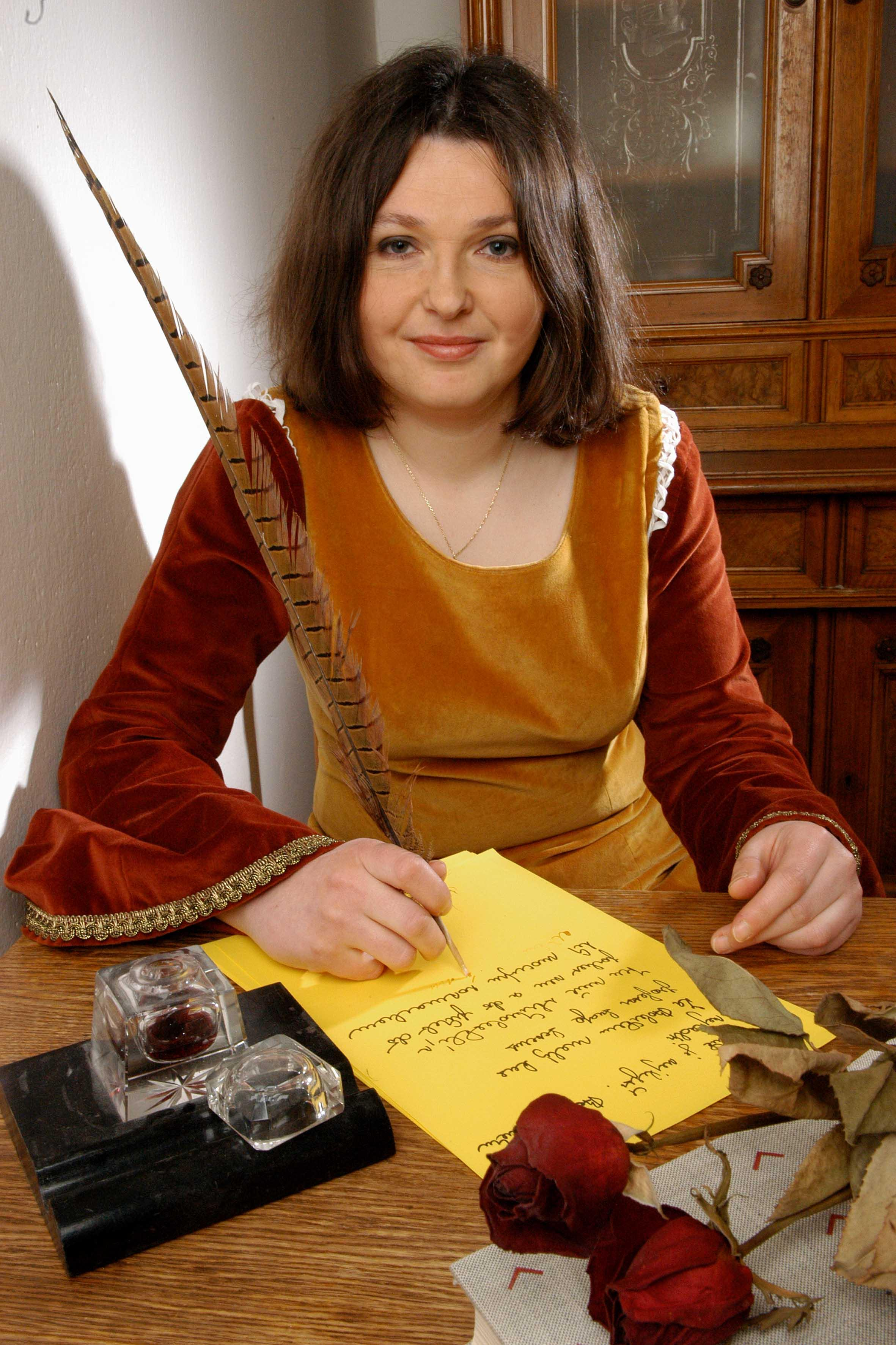 Zuzana Koubková, czech writter of historical novels from middleage Czech